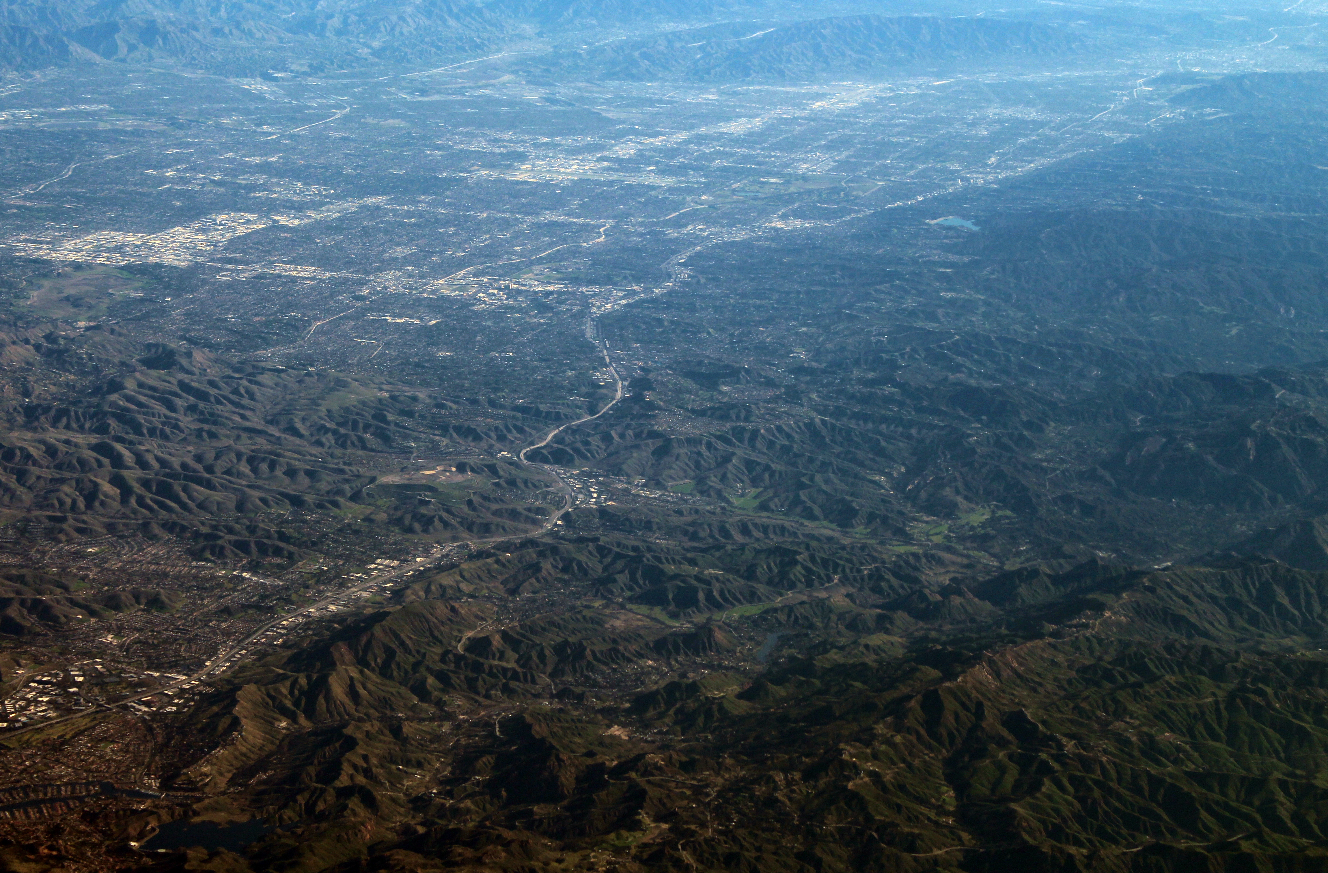 Aerial view of Calabasas and the San Fernando Valley, facing northeast from a passing jetliner off the coast of Oxnard (which had just departed from John Wayne Airport). This image has been balanced to compensate for haze and smog. Photographed by user Coolcaesar on February 2, 2020.